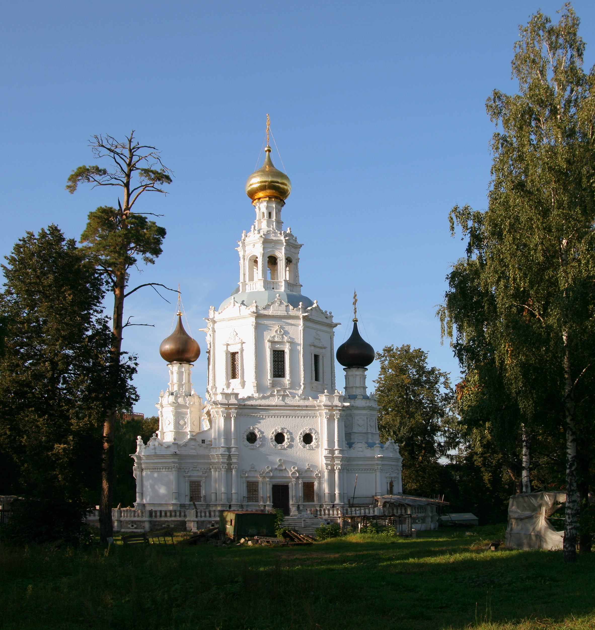 Church of Trinity in Troitse-Lykovo, Moscow, 1695